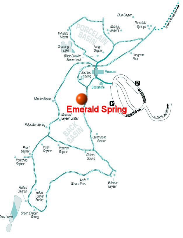 Map of Norris Geyser Basin, Yellowstone National Park, Wyoming with Emerald Spring annotated